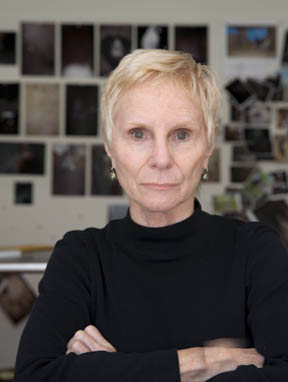 Portrait of the artist